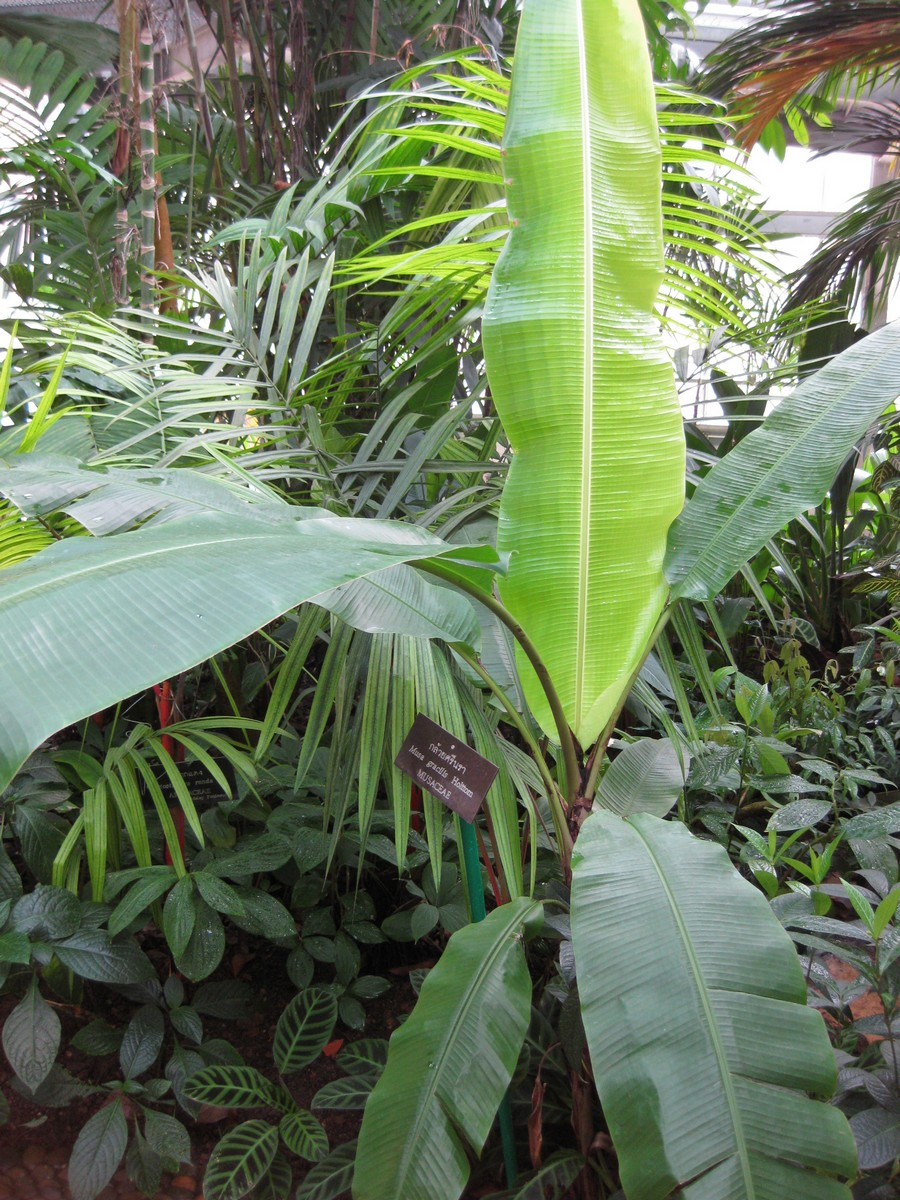 Photographed at the Queen Sirikit Botanic Garden (Chiang Mai Province, Thailand) in March